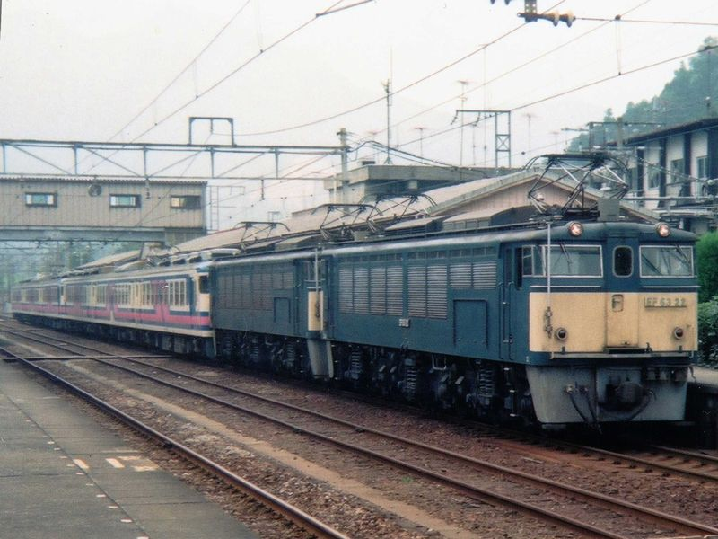 JR East Class EF63 electric locomotive EF63 22 hauling a 165 series EMU at Yokokawa